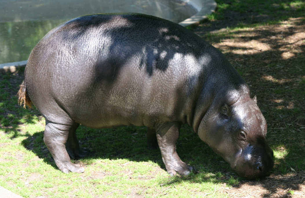 Cropped version of File:Pygmy Hippopotamus (Hexaprotodon liberiensis).jpg.